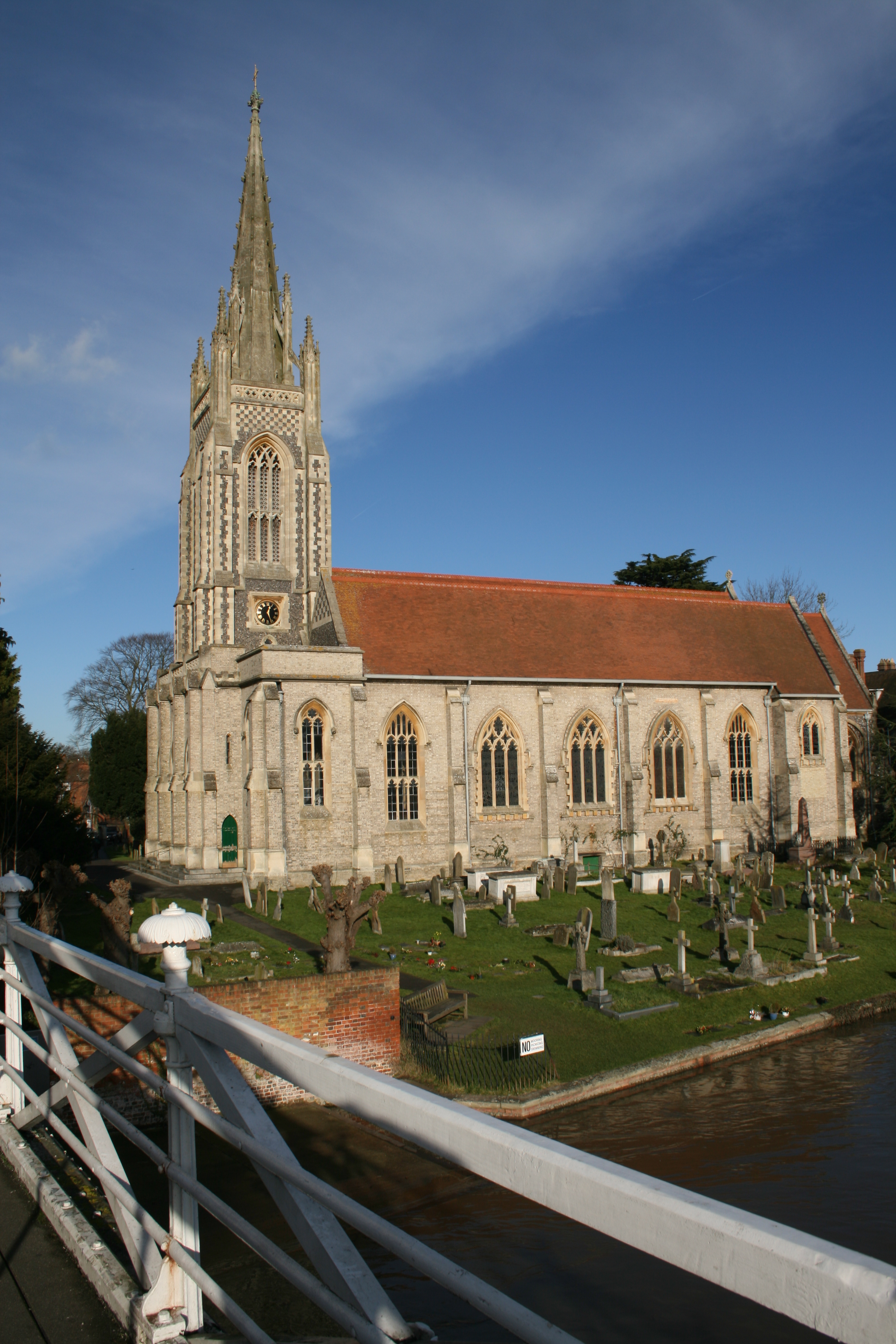 All Saints' parish church, Marlow, viewed from Marlow Bridge